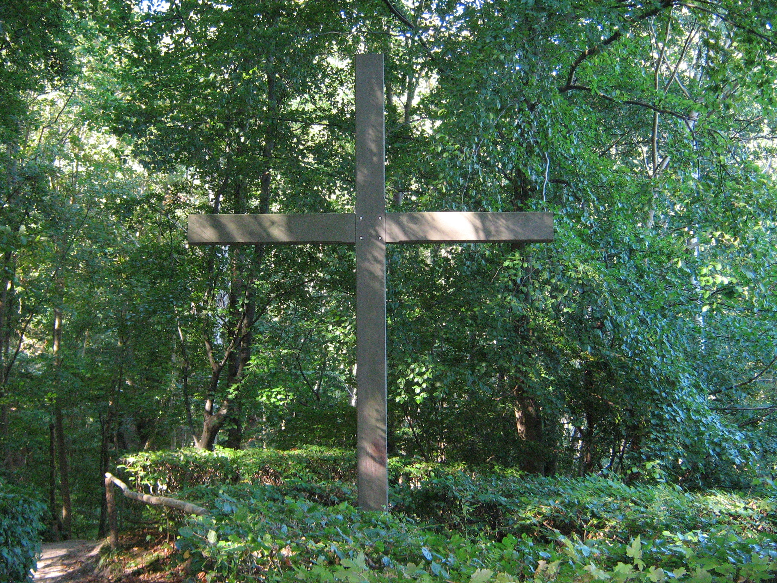 Liselund, Møn, Denmark. Large wooden cross at the edge of the cliff. Inspired H.C. Andersen's poem: Klintekorset